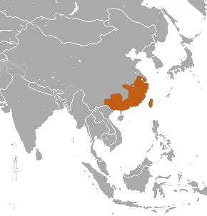 Chinese Hare (Lepus sinensis) range